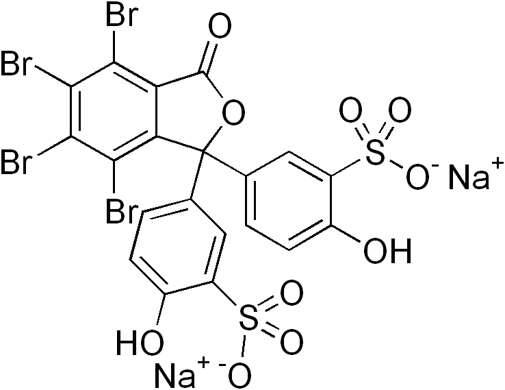 Chemical structure of bromsulphthalein